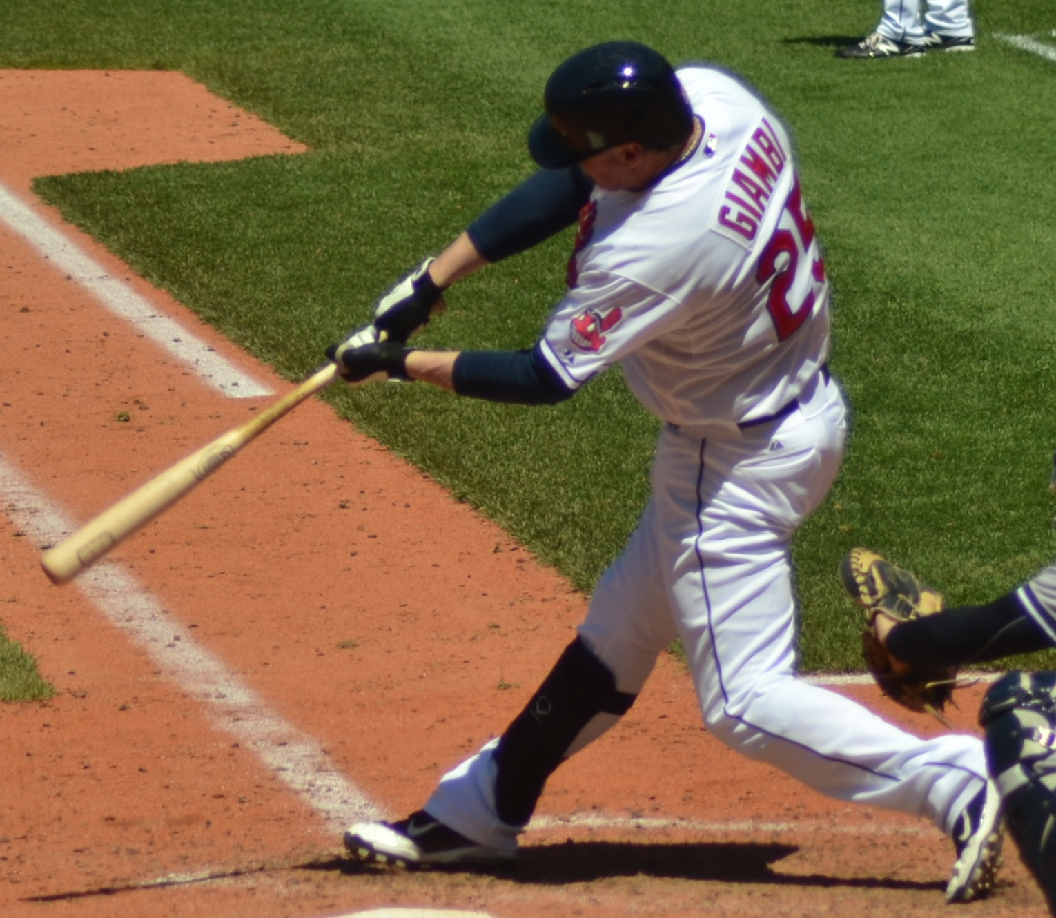 Jason Giambi